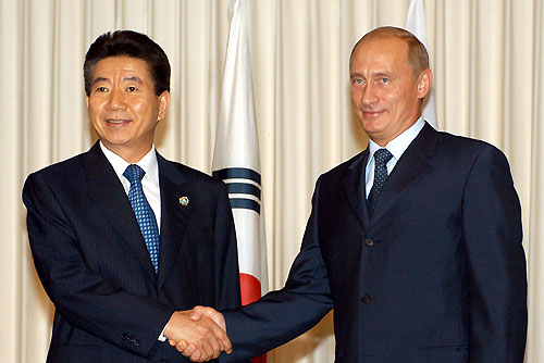 BANGKOK. President Putin with Roh Moo-hyun, President of the Republic of Korea.